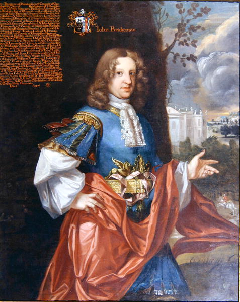 Sir John Bridgeman, 2nd Baronet (16 August 1631 – 24 August 1710). Bridgeman was the son of the Lord Keeper of the Great Seal Sir Orlando Bridgeman, 1st Baronet, of Great Lever, and Judith Kynaston, and older brother of Sir Orlando Bridgeman, 1st Baronet, of Ridley. He married Mary Cradock, daughter of George Cradock of Caverswall Castle. The arms show Bridgeman impaling ??? (not Cradock)